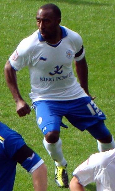 25/09/11 Cardiff V Leicester, Championship, Cardiff City Stadium, Cardiff, Wales